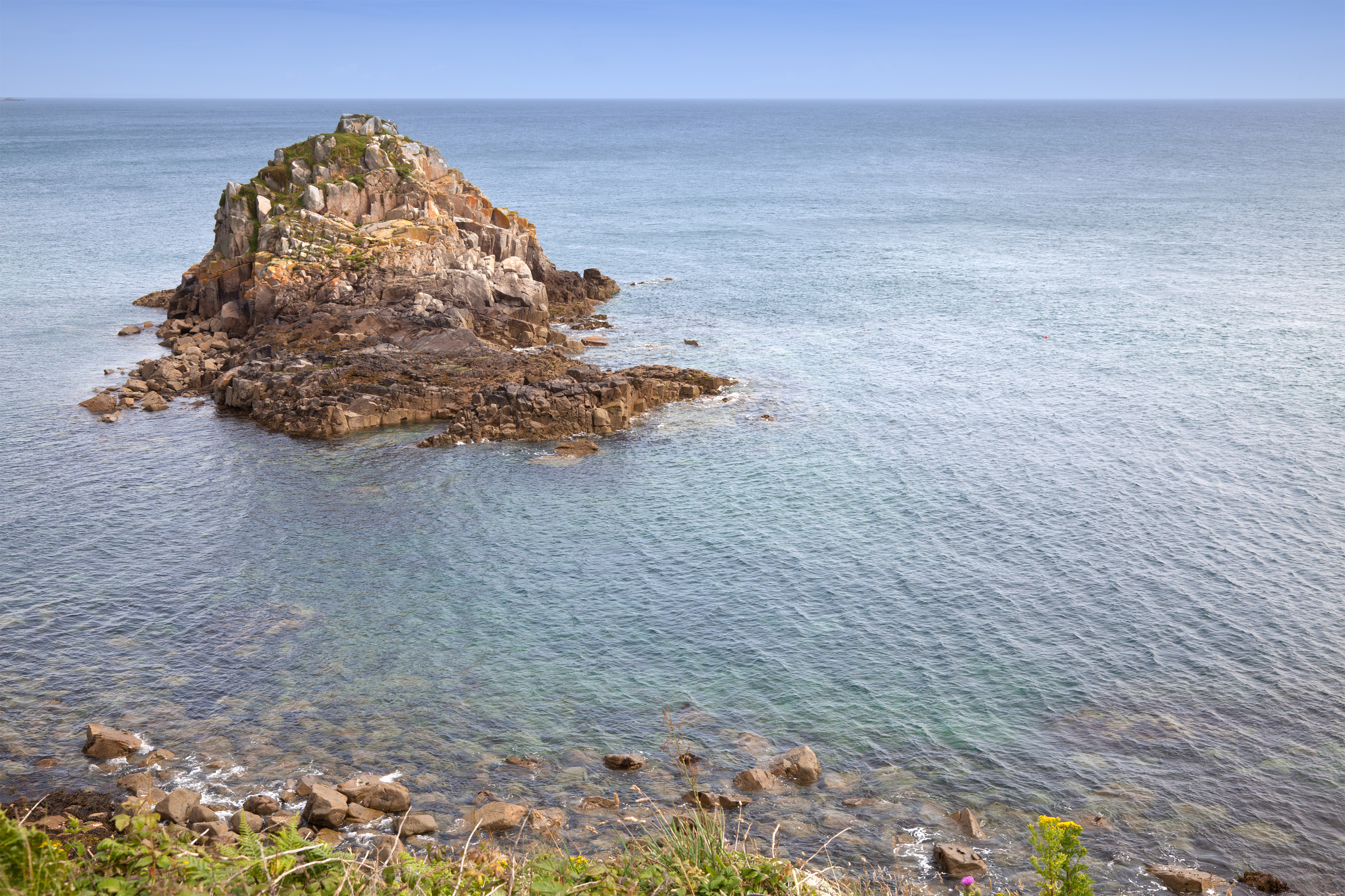 Caquorobert Island (Channel Islands), seen from Herm